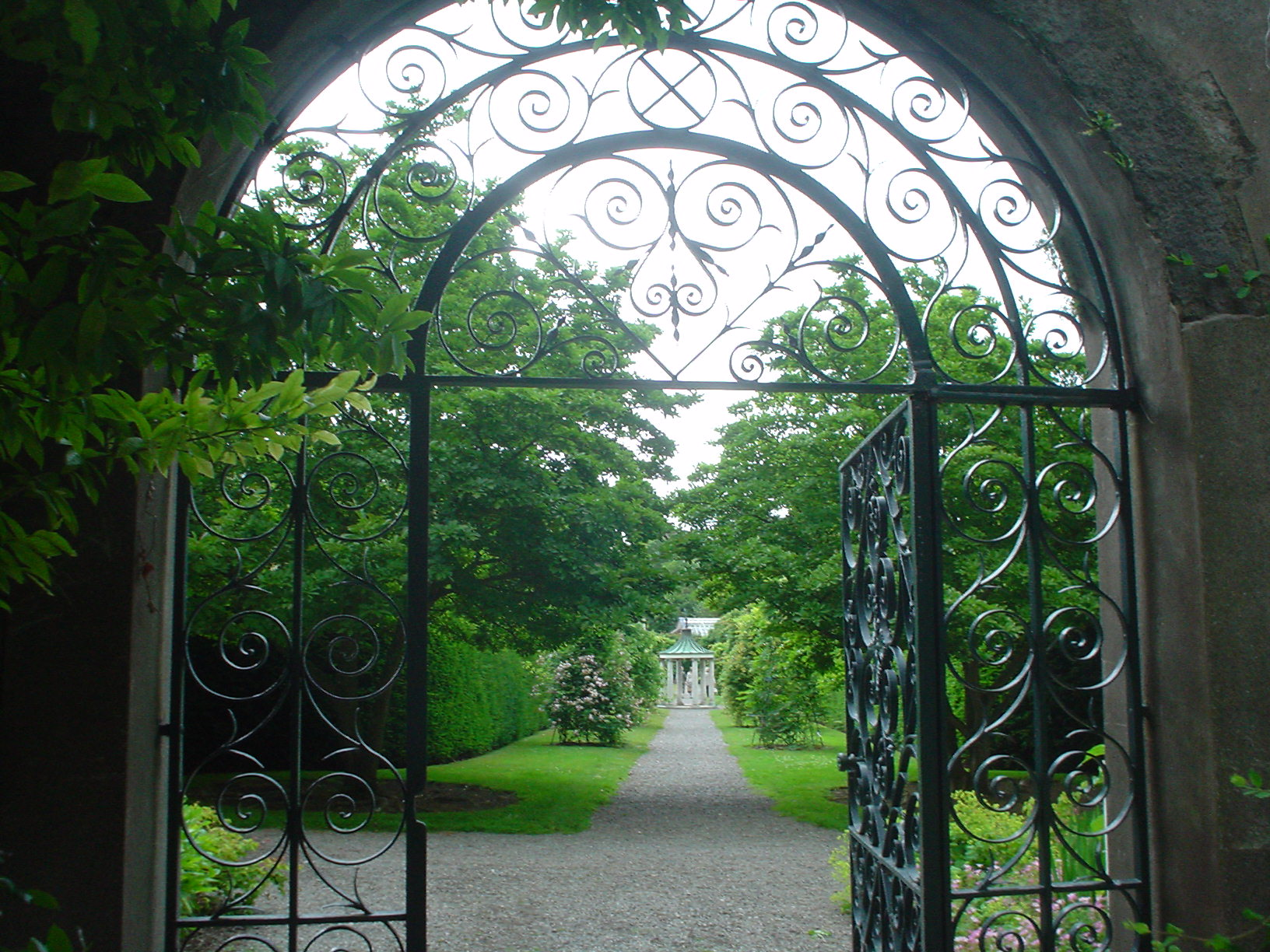 Flickr photo taken by davida3 in gardens of Farmleigh estate, Phoenix park, Dublin, Ireland